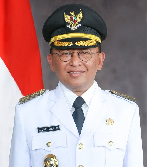 Drs. KH. A. Busyro Karim, M.Si. as Regent of Sumenep, East Java